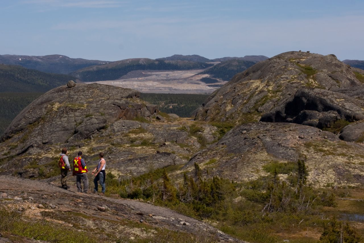 Three geologists in Labrador, Canada; the Voisey's Bay Mine is in the background.